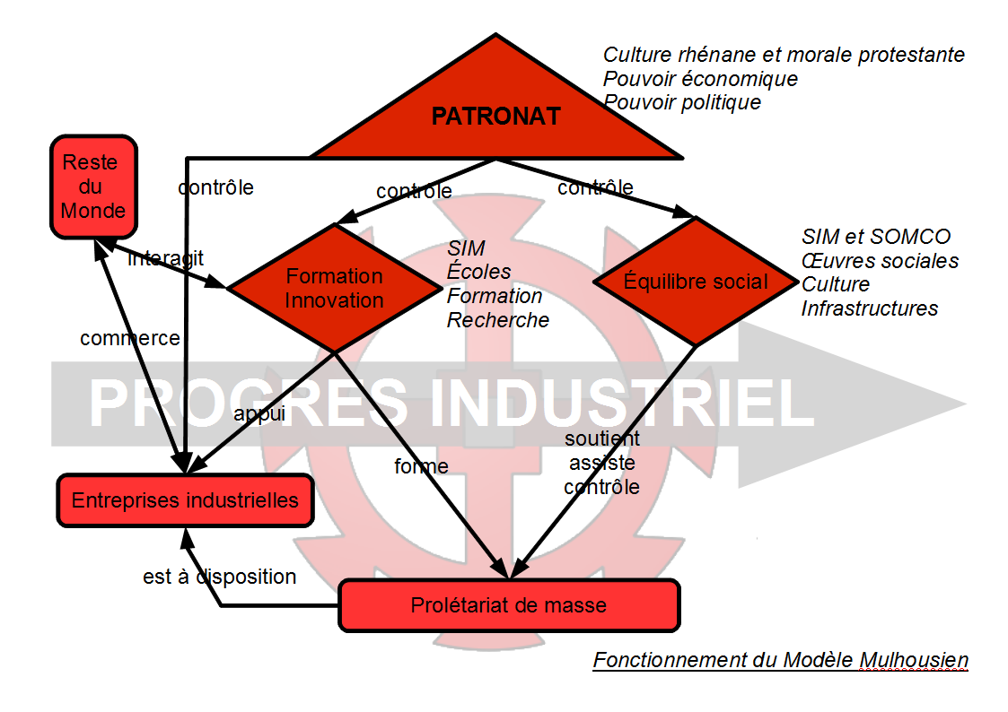 the Mulhousian model